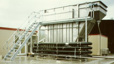 (REDOX DAF unit for 225 m3/h (1000 GPM) in operation at a paper mill)